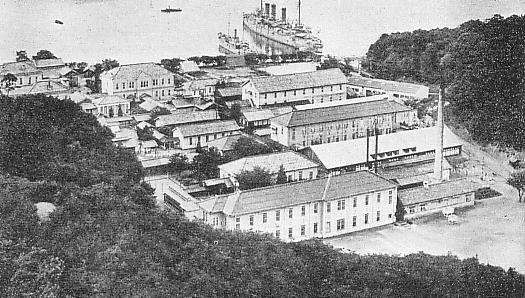 IJN(Imperial Japanese Navy) Engineering College